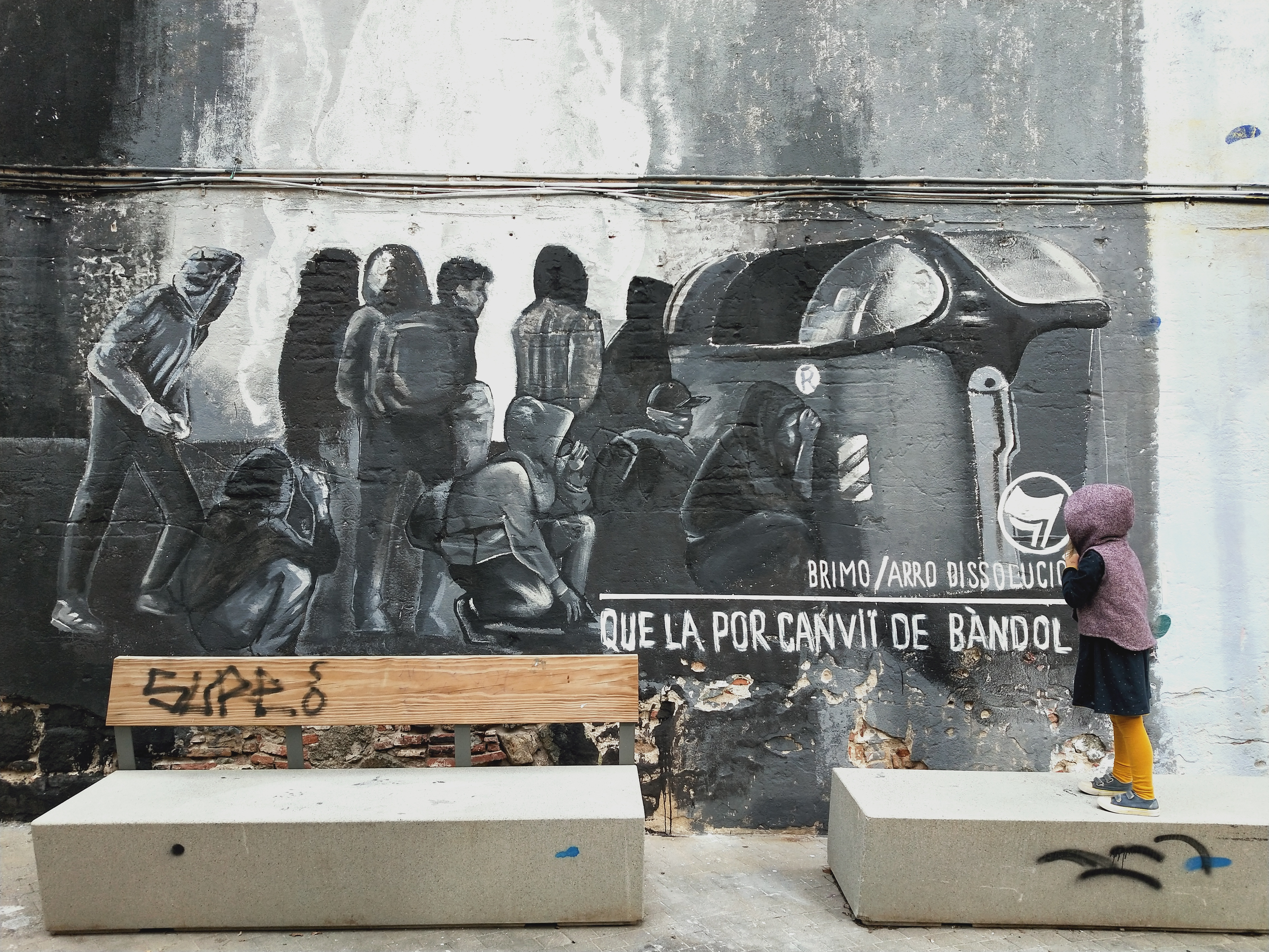 Mural at Masnou, during the 2019 Catalan protests. With the mottos "Que la por canviï de bàndol" (Fear must change to the other side) and "BRIMO/ARRO dissolució" (BRIMO/ARRO [riot cops] dissolution).